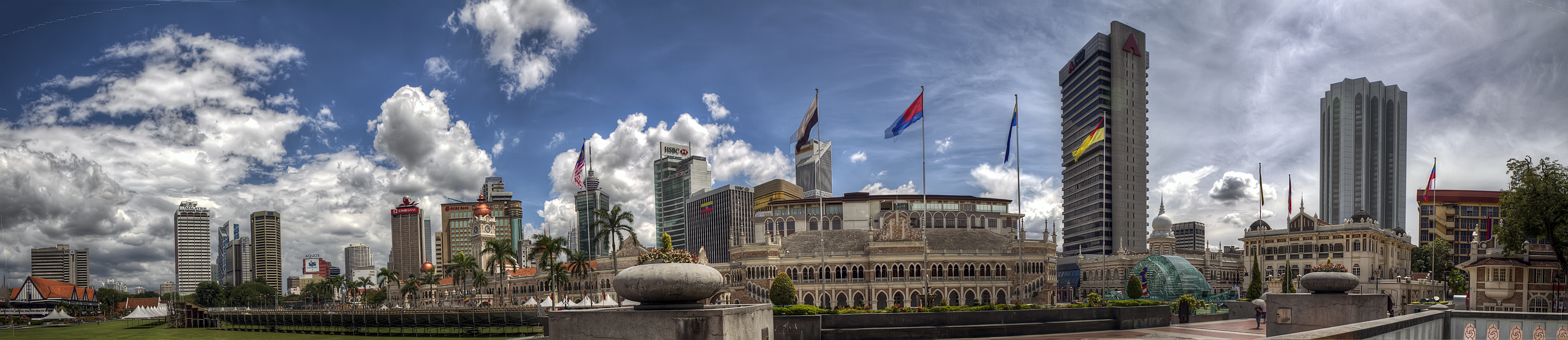 Panaromic view of Merdeka Square in Kuala Lumpur